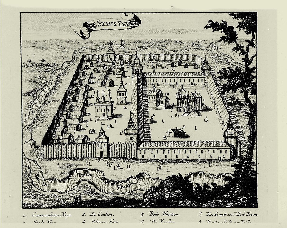 The town Pelym, Siberia, XVII c.